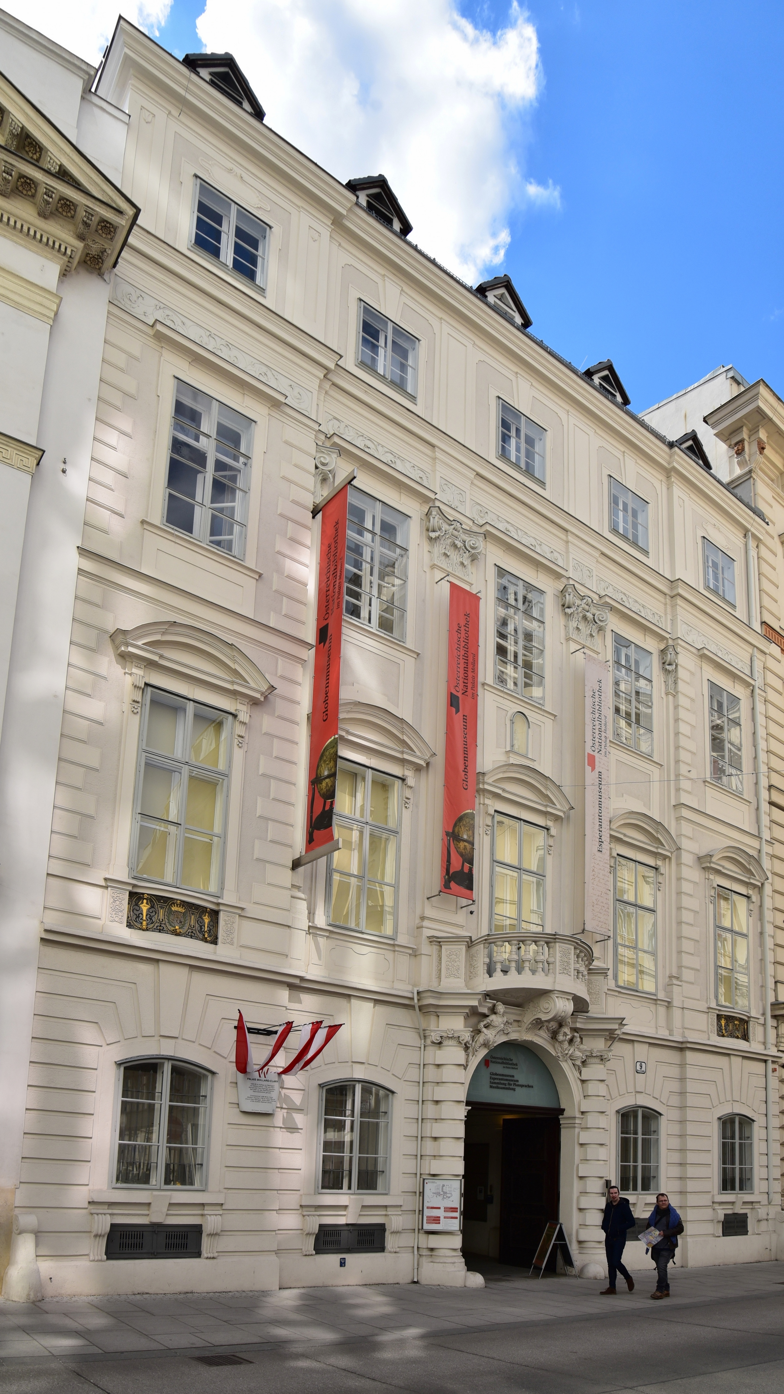 External view of the Palais Mollard-Clary, Vienna